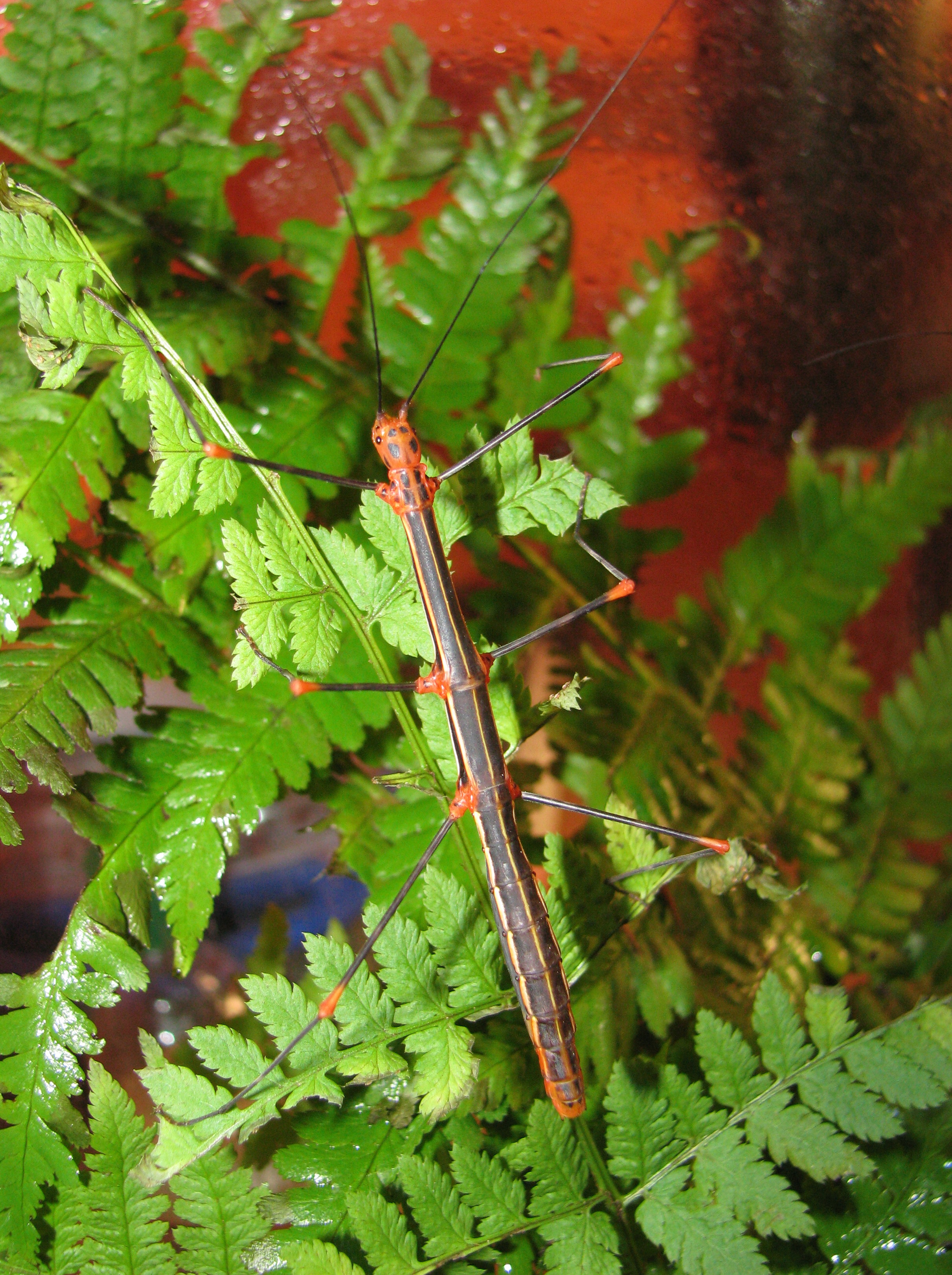 adult female of Oreophoetes peruana